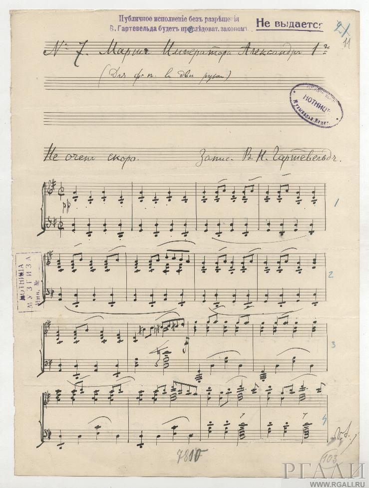 Russian Folk Song arranged by Wilhelm Garteweld